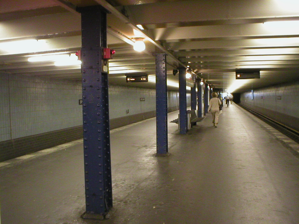 The Berlin U-Bahn station Spittelmarkt before renovation, line U2